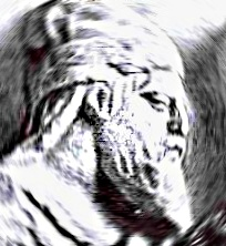 The Scythian king Skiluros, relief from Scythian Neapolis, Crimea, 2d century BC